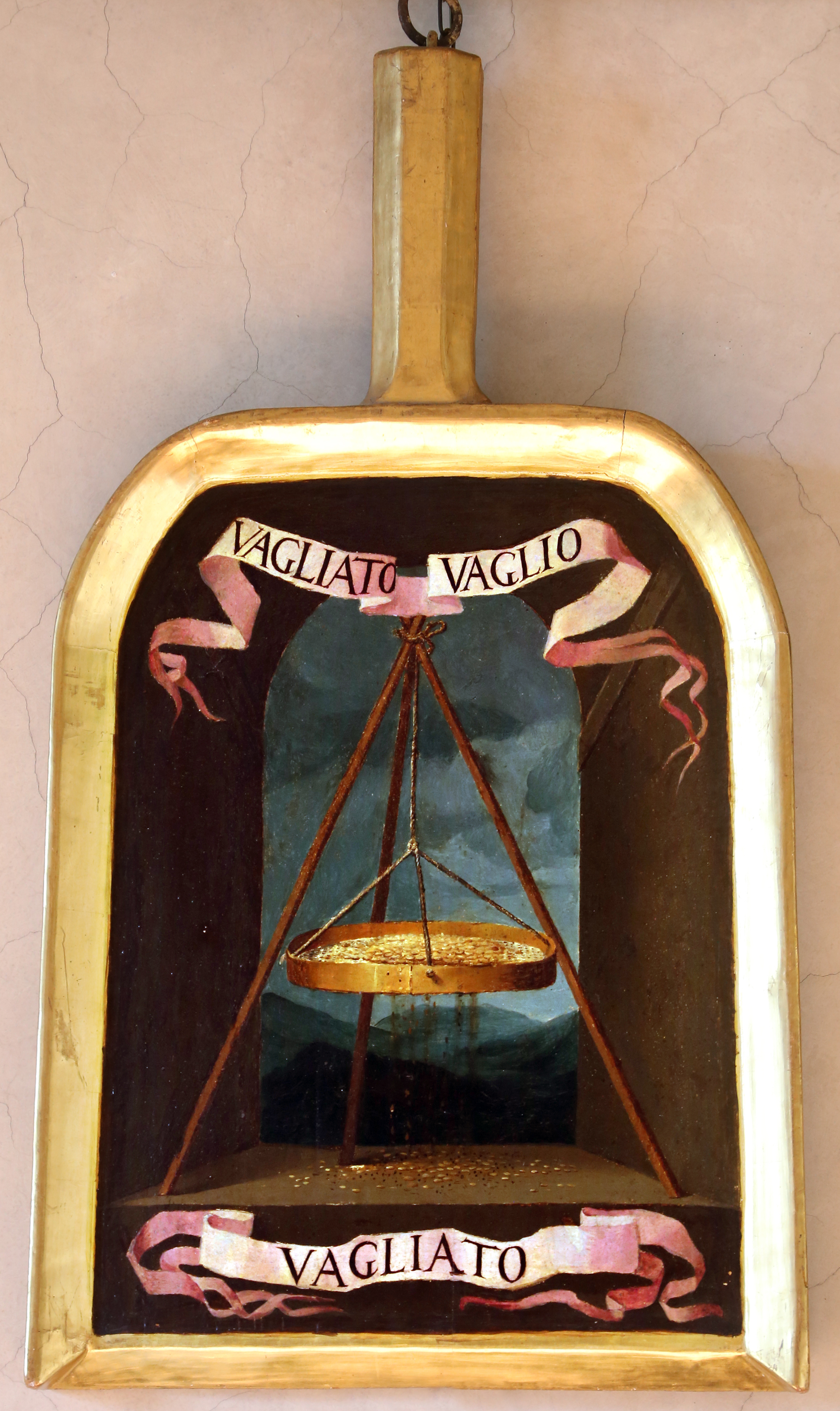 Shovels of Accademici della Crusca